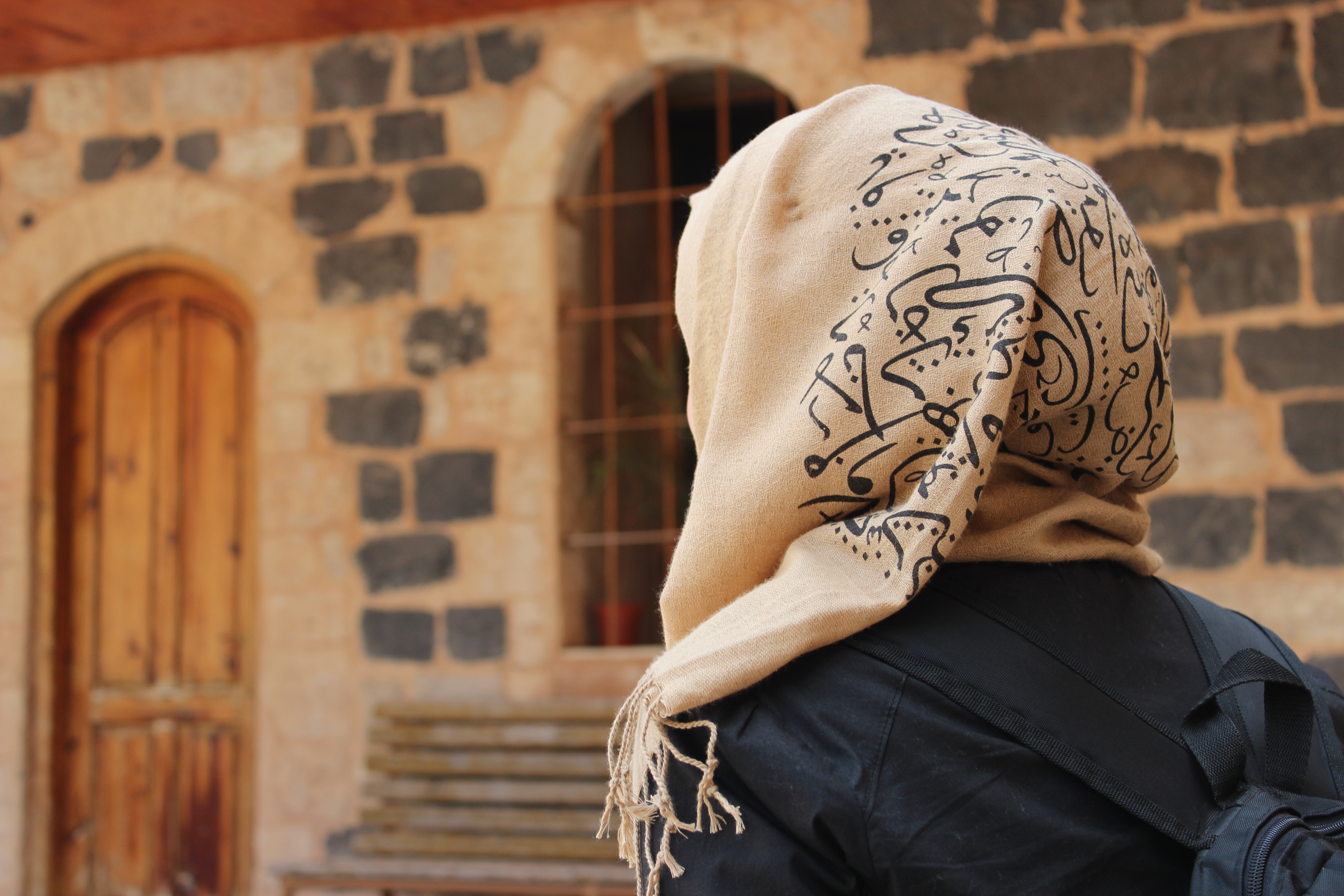 A Jordanian girl inside the courtyard of Ottoman Saraya Building in Iribid, Jordan